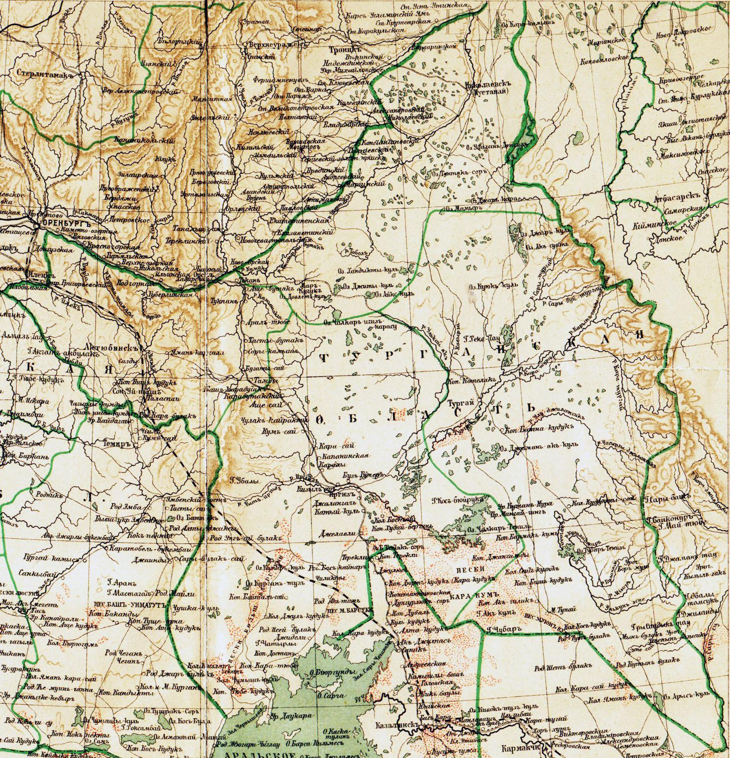 Map of Turgay Oblast of Russian Empire from Brockhaus and Efron Encyclopedia